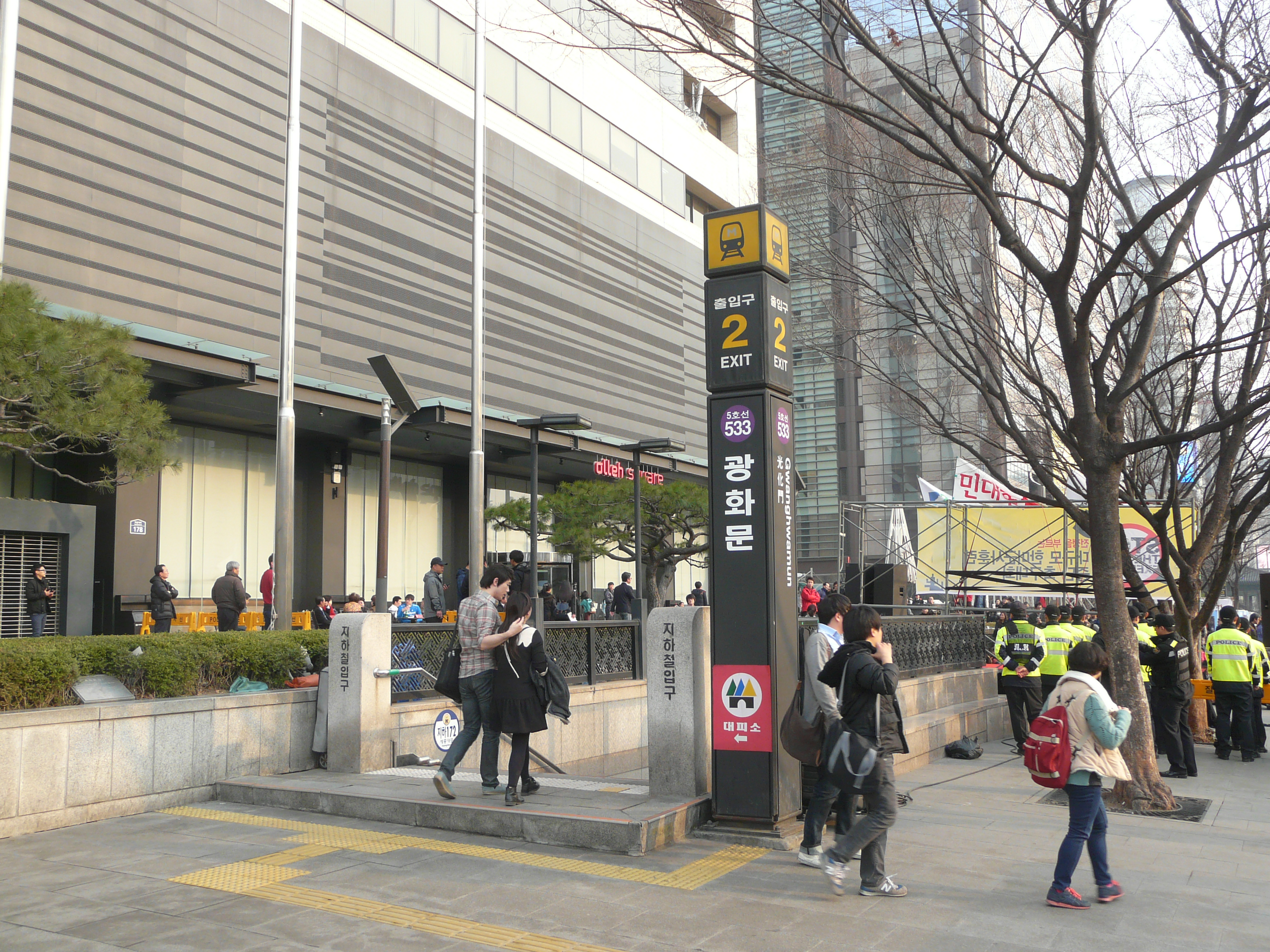 The no.2 entrance to Gwanghwamun Station on the Seoul Metro Line 5 in Jongno-gu, Seoul, Republic of Korea(South Korea)